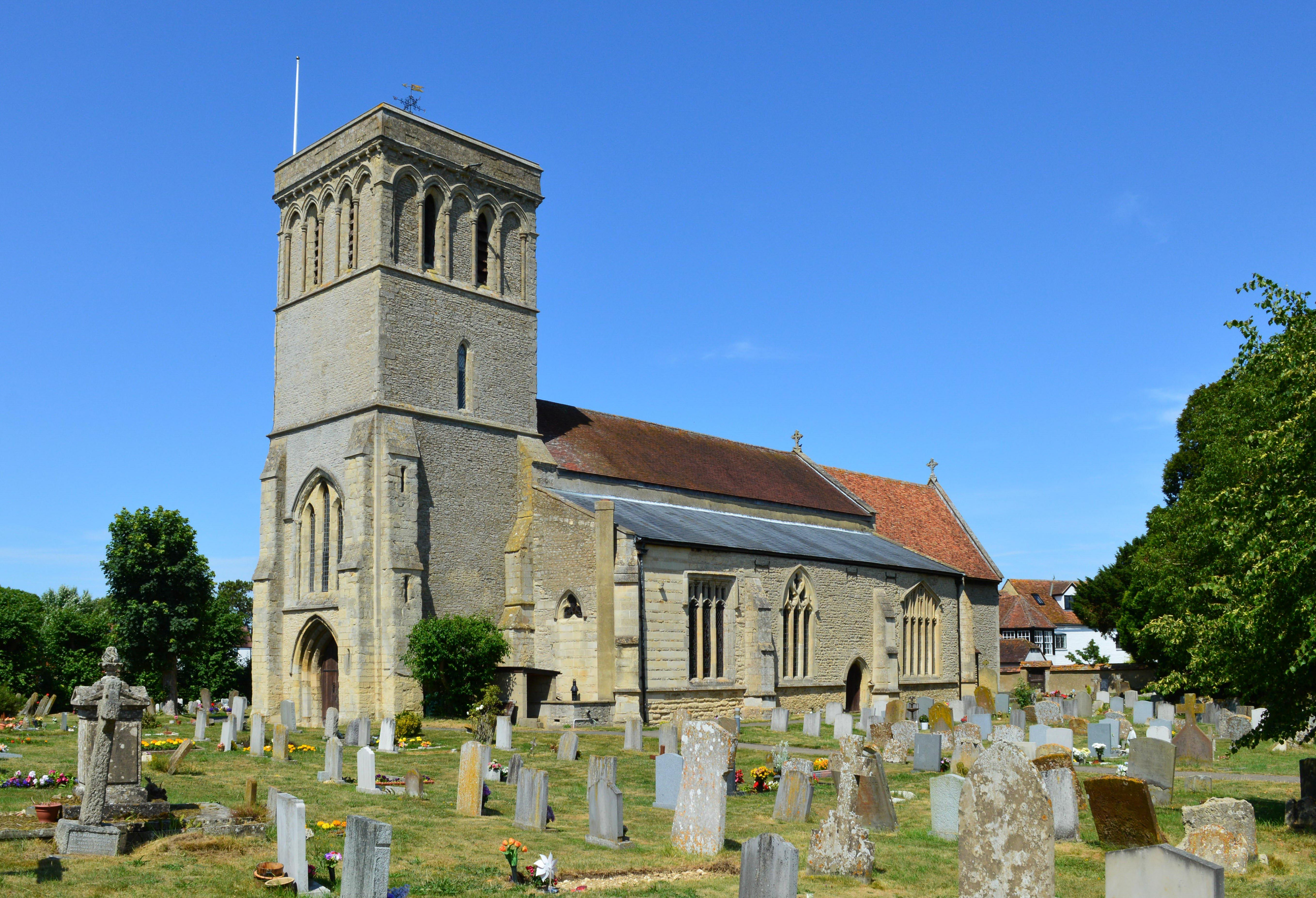 St Mary's parish church, Haddenham, Buckinghamshire, seen from the southwest